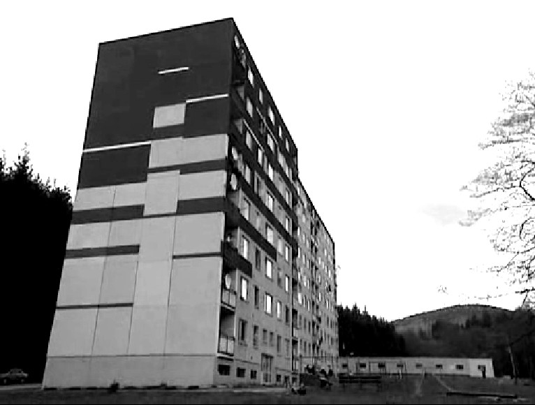 Block of flats in Jindřichov, Šumperk District